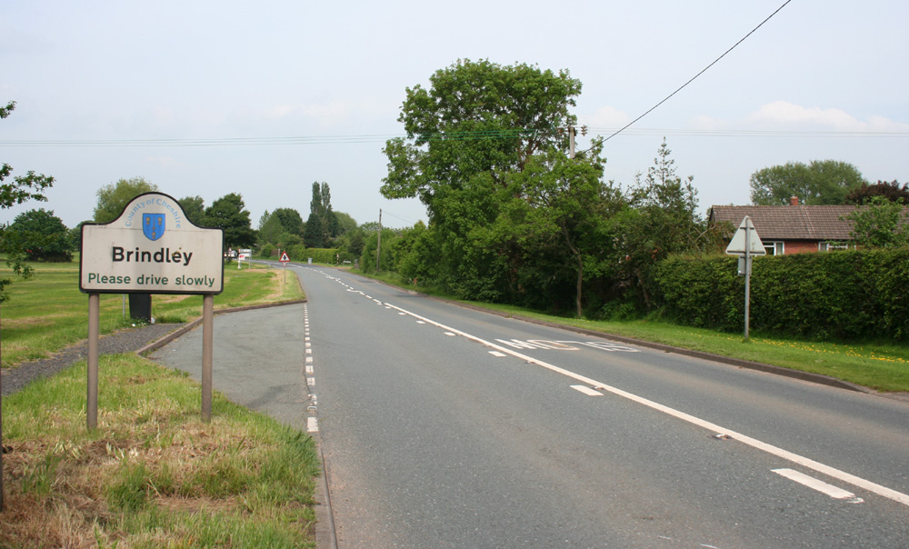 A534 at Brindley, Cheshire